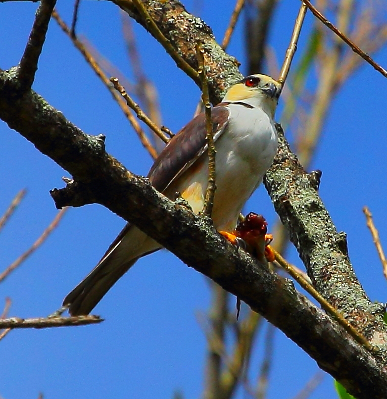 A Pearl Kite at Aripo Livestock Station, Aripo Valley, Trinidad, Trinidad and Tobago.